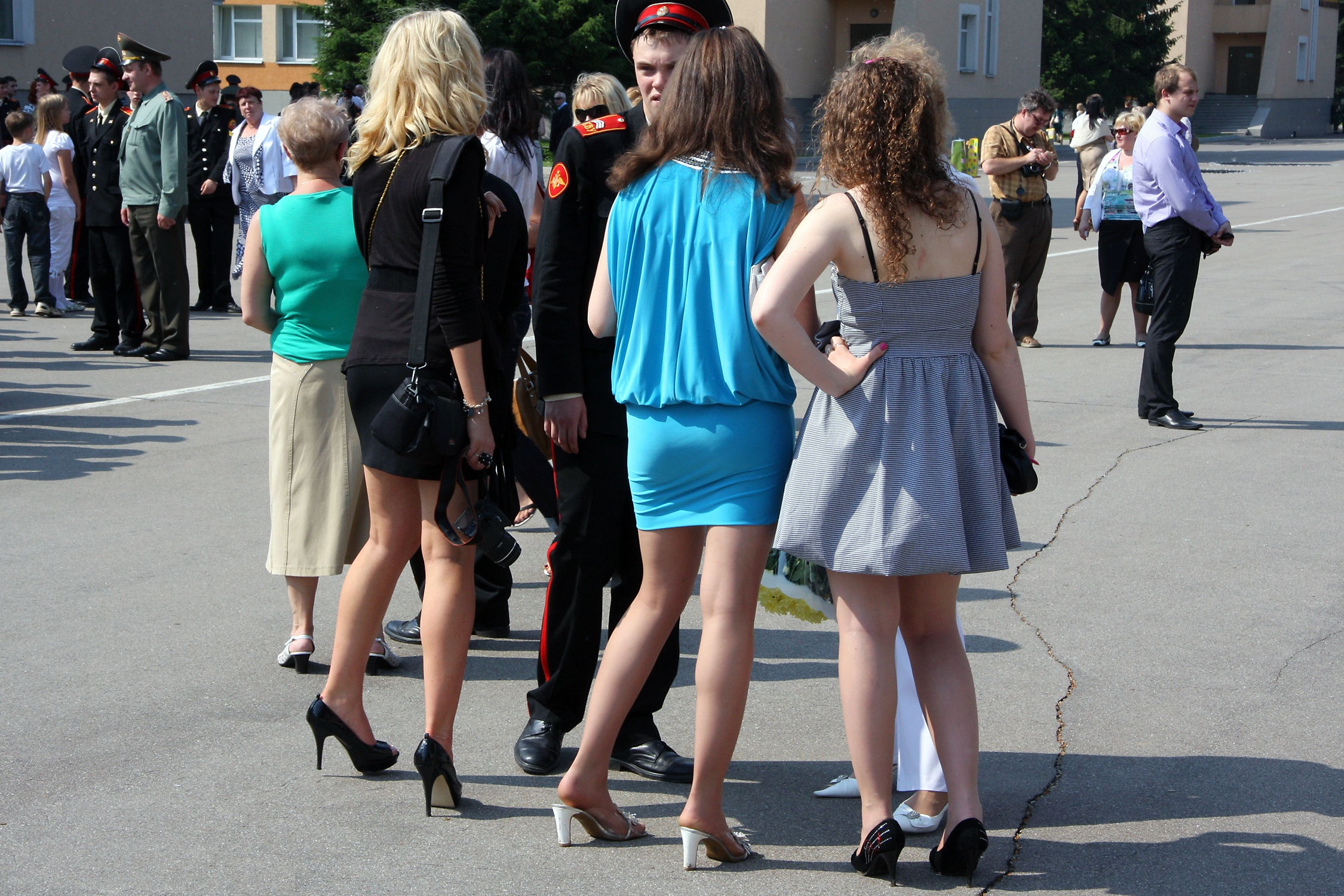 Russian Suvorov Military School teenager student crowded by girls.